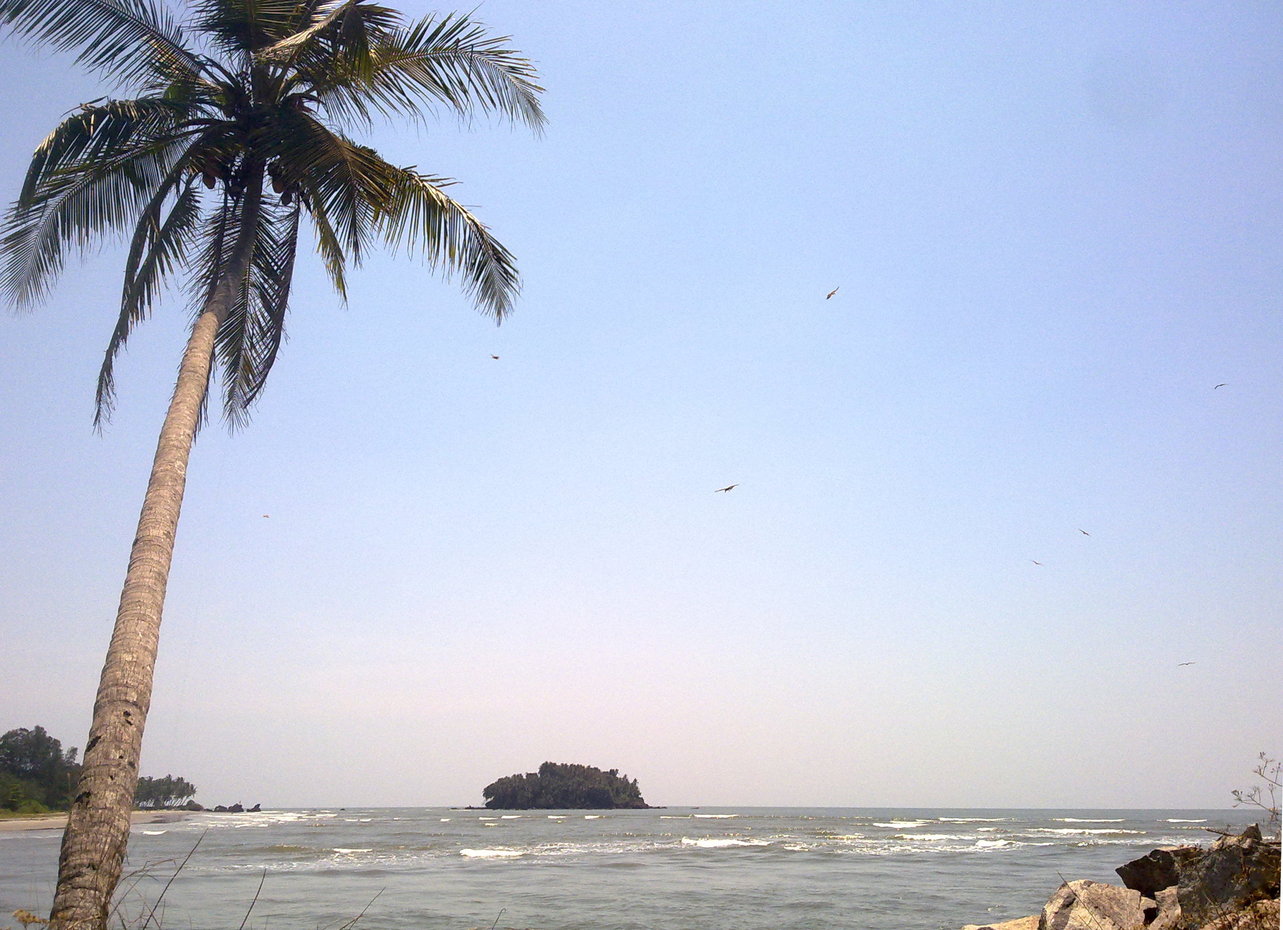 This island in Kannur District has an area of about 2 Ha. (2011)